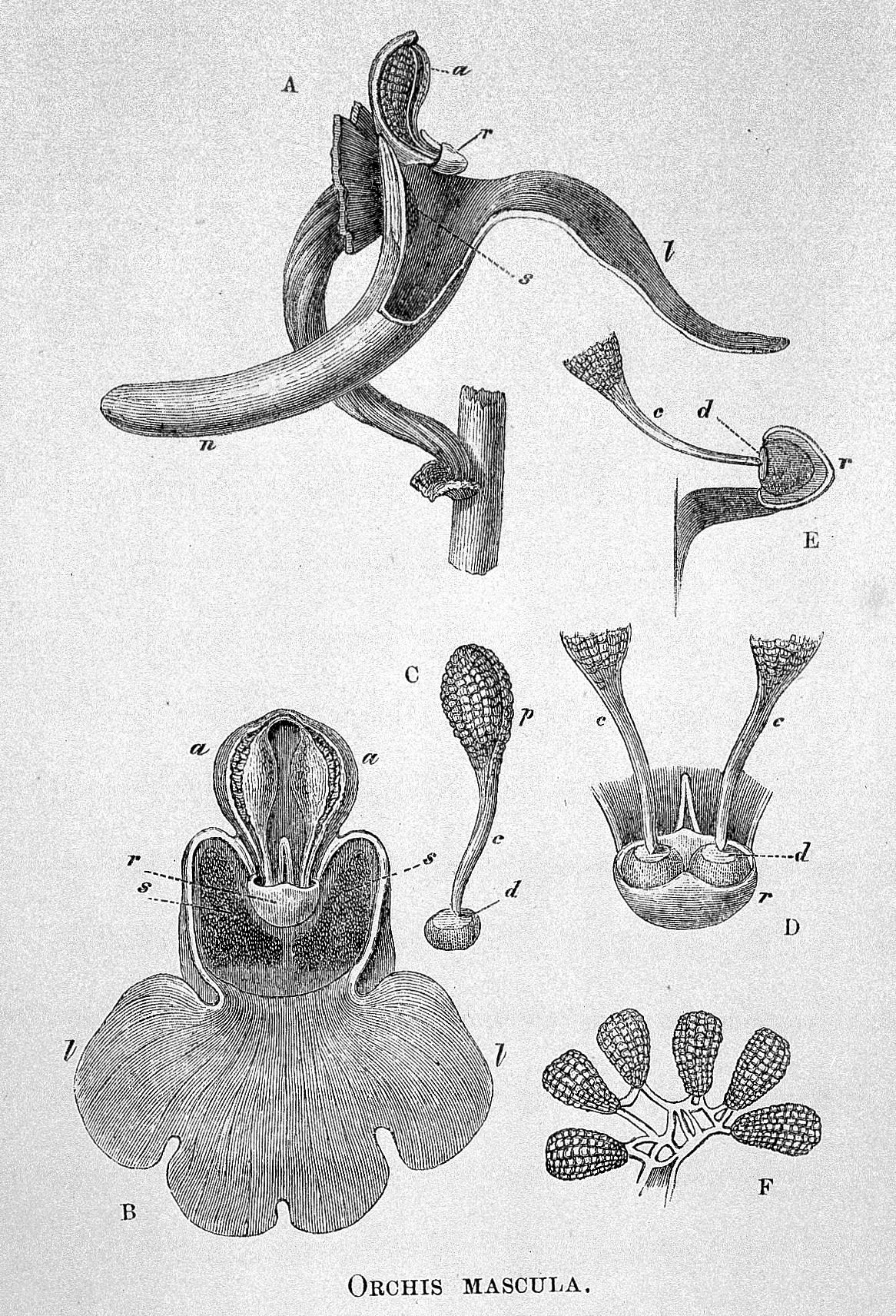 DARWIN, Charles {1809-1882} C. Darwin, On the various contrivances by which British and foreign orchids are fertilised by insects, and on the good effects of intercrossing.London: John Murray, 1862. Pull-out plate, fig.1: Orchis Mascula General Collections Keywords: darwin, charles {1809-1882}; orchis mascula; FERTILISATION; orchids